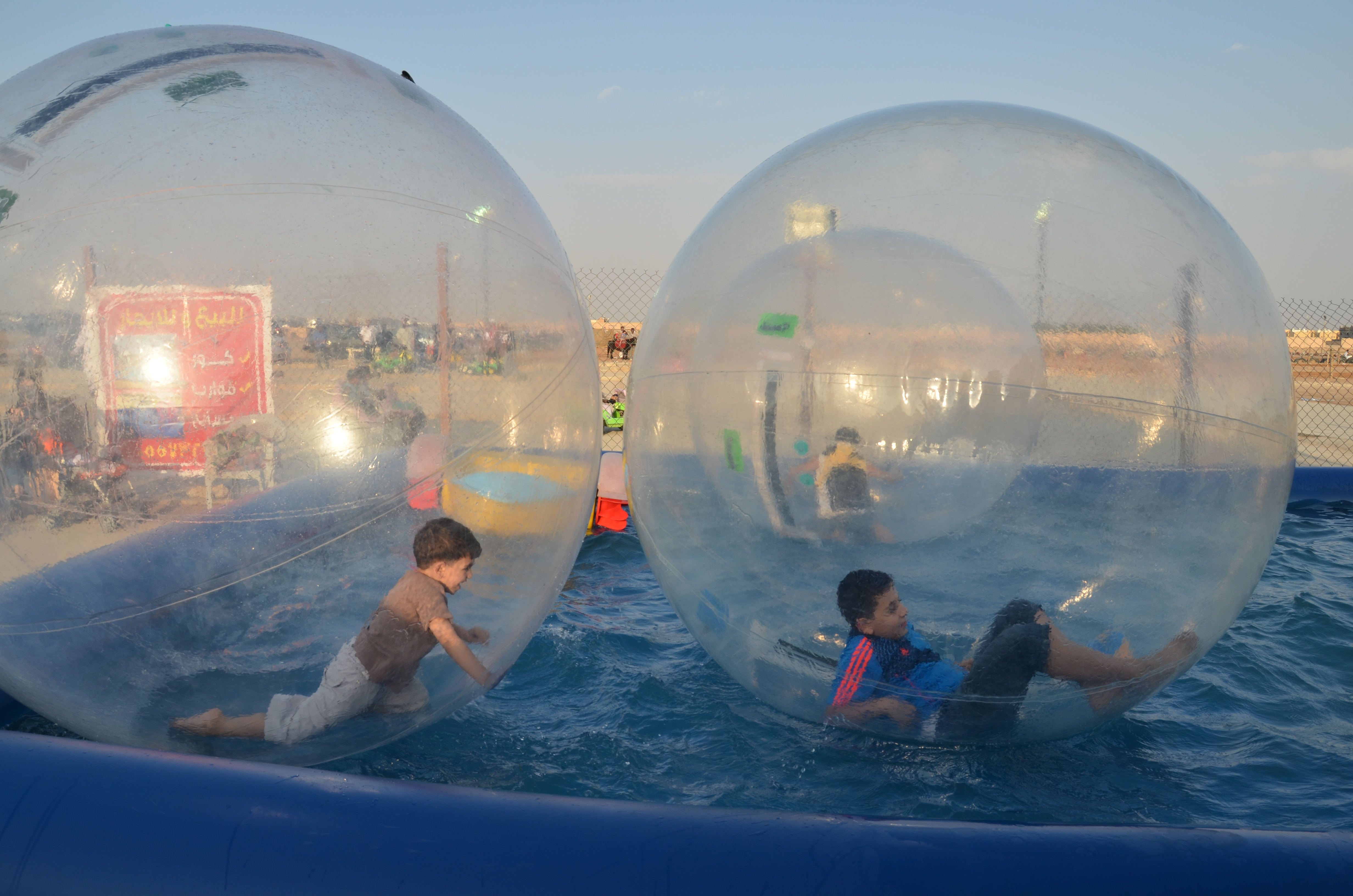 Water Balloon Game Riyadh Saudi Arabia